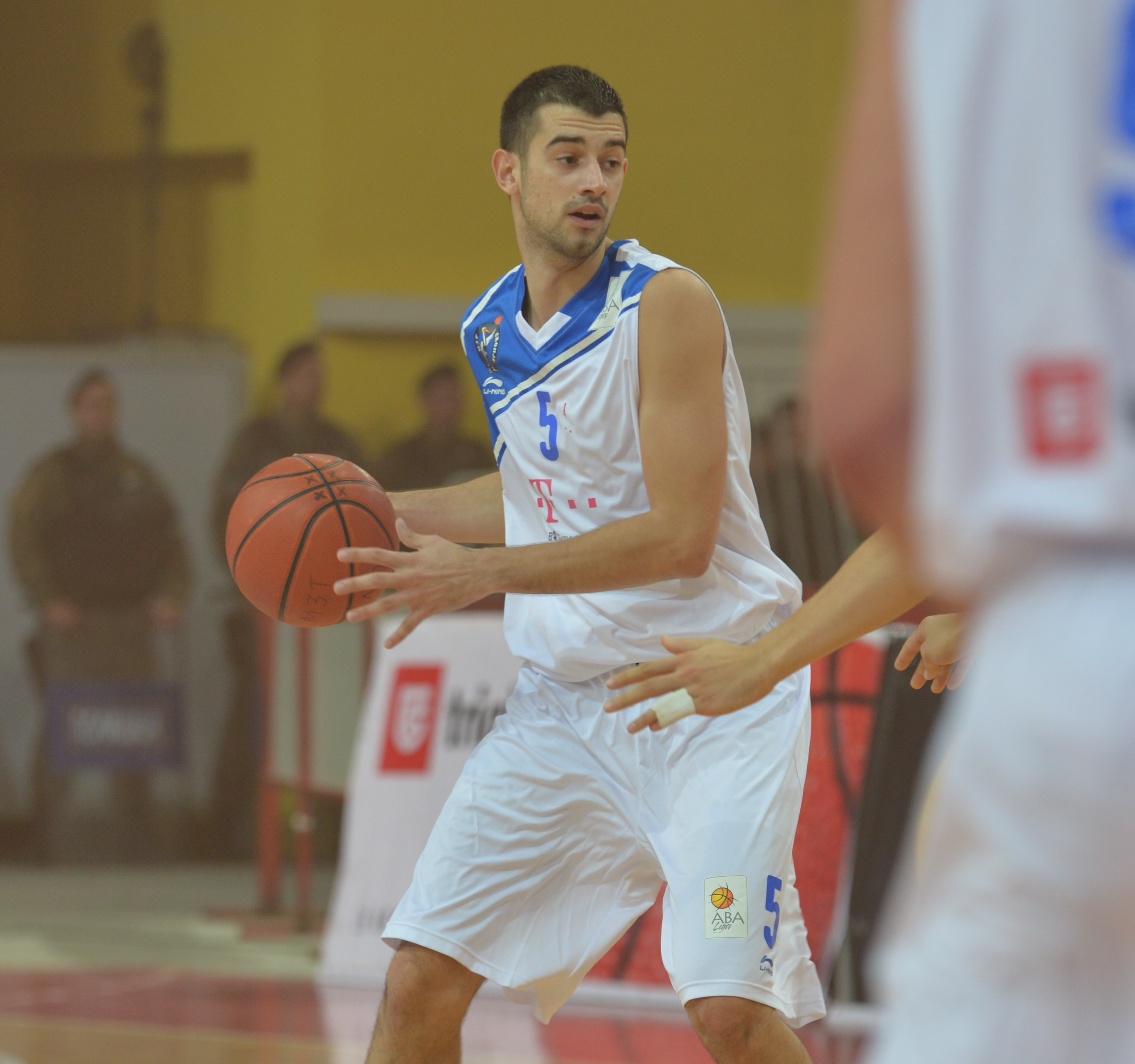 синовец